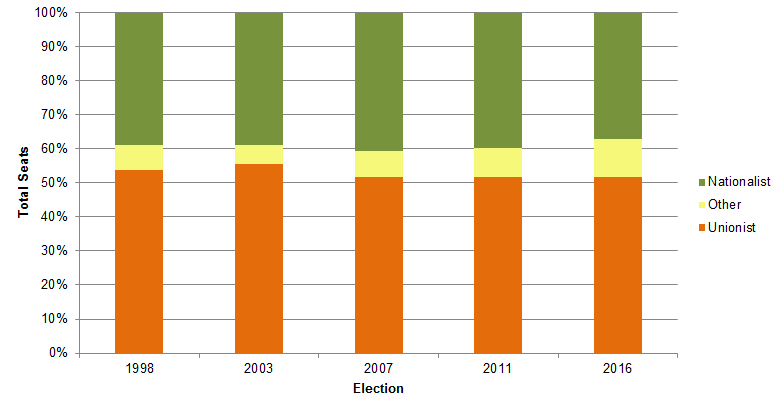 Shows the proportion of seats obtained at each election to the Northern Ireland Assembly by those members designated as Unionist, those members designated as Nationalist and those members designated as Other.